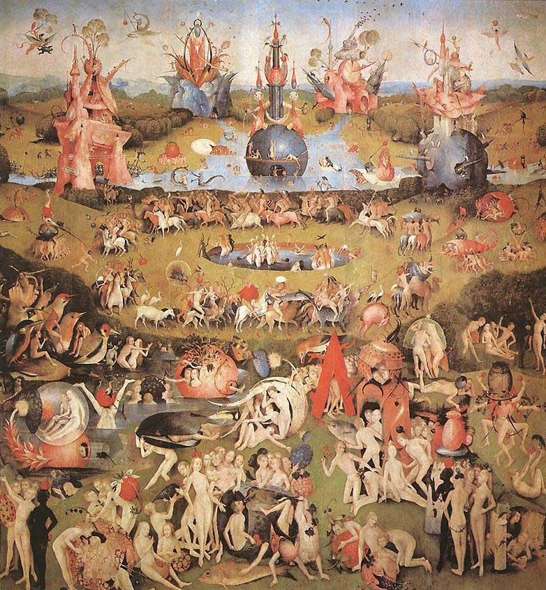 The Garden of Earthly Delights